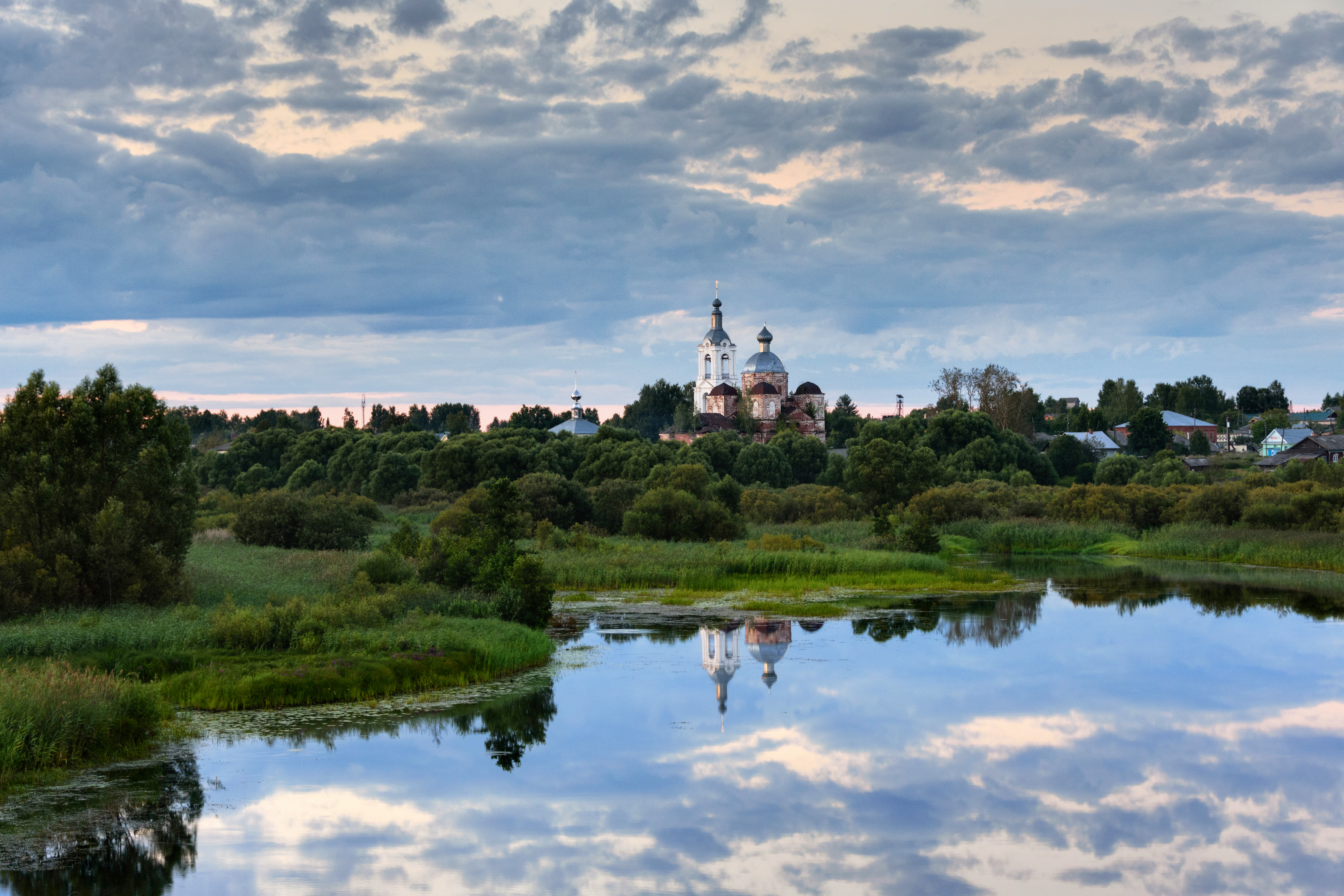 Ensemble of churches in Myt from the bridge through Lukh river, , Ivanovo Oblast, Russia